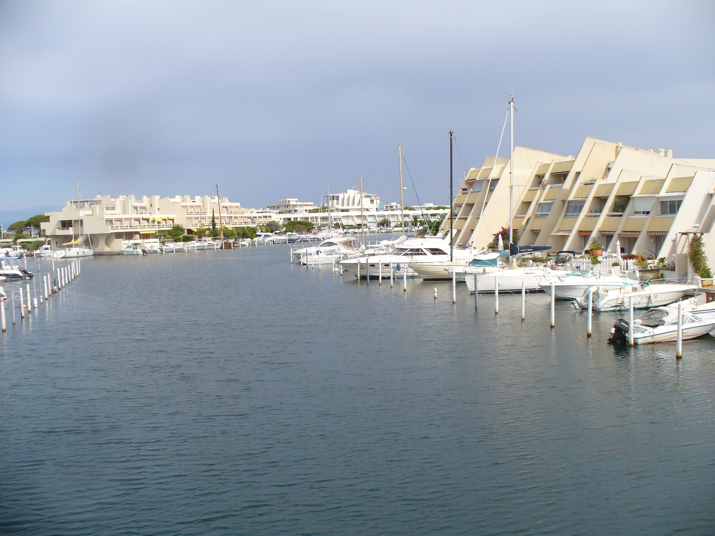 Port Camargue, in Le Grau du Roi (South of France)